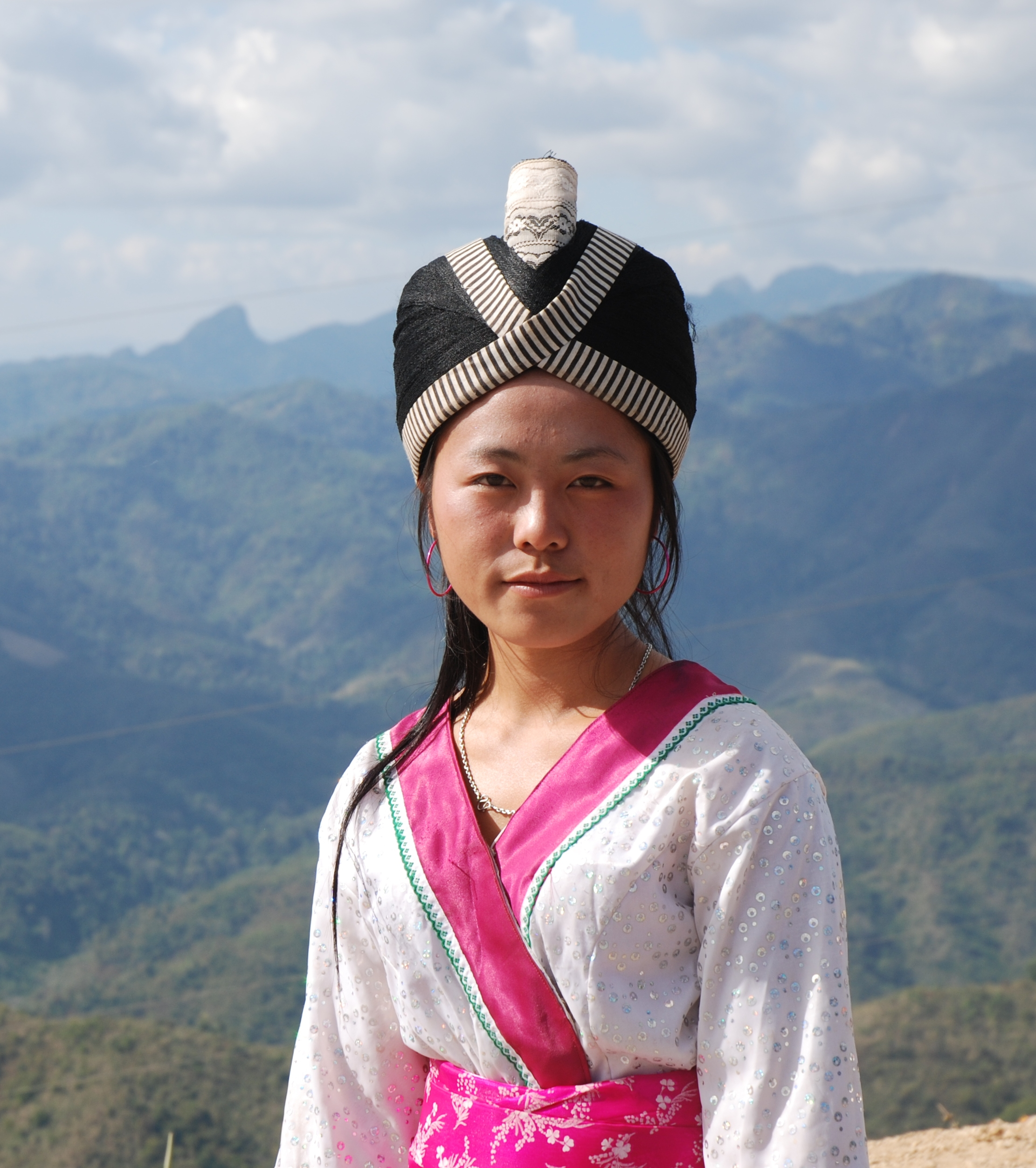 Hmong woman in northern Laos